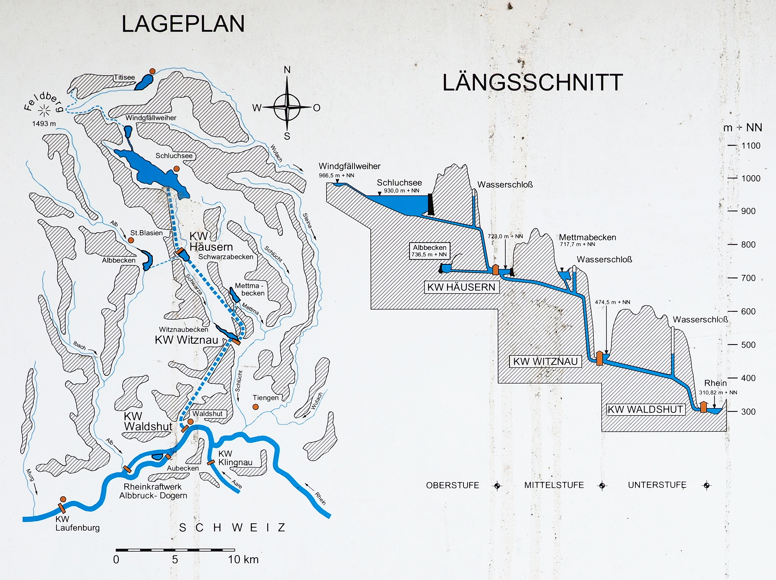 Scheme of Schluchsee power plant group